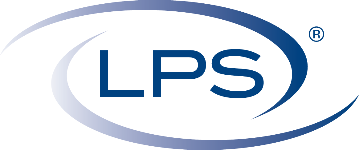 LPS corporate icon, medium-resolution PNG format